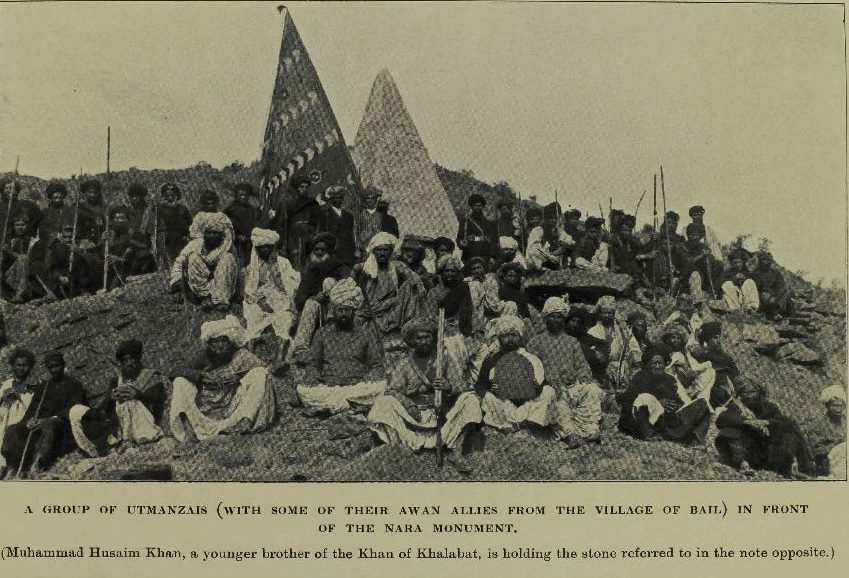 Sardar Hari Singh Nalwa Defeated and Pronounced dead by the Utmanzais at this place